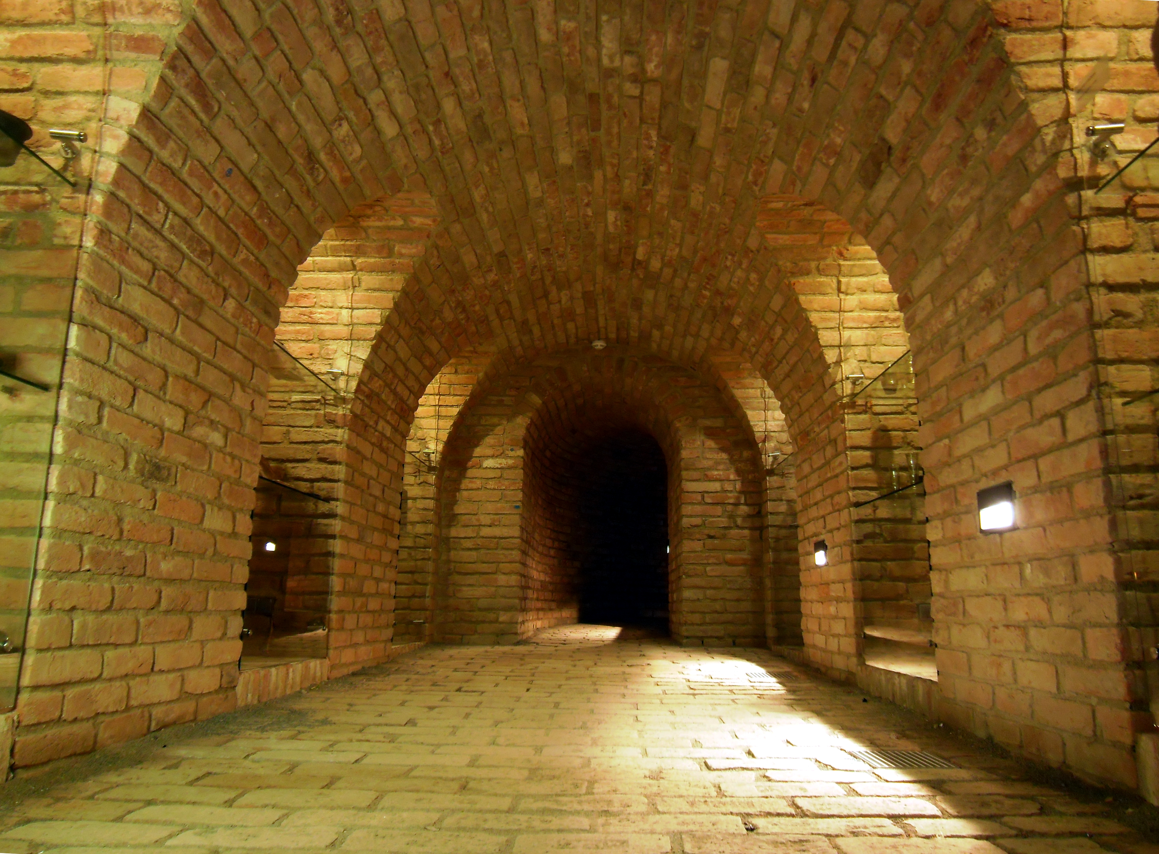 A hall